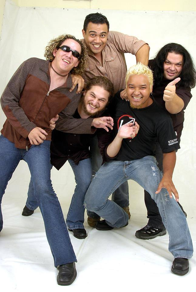 at photo shoot for second album